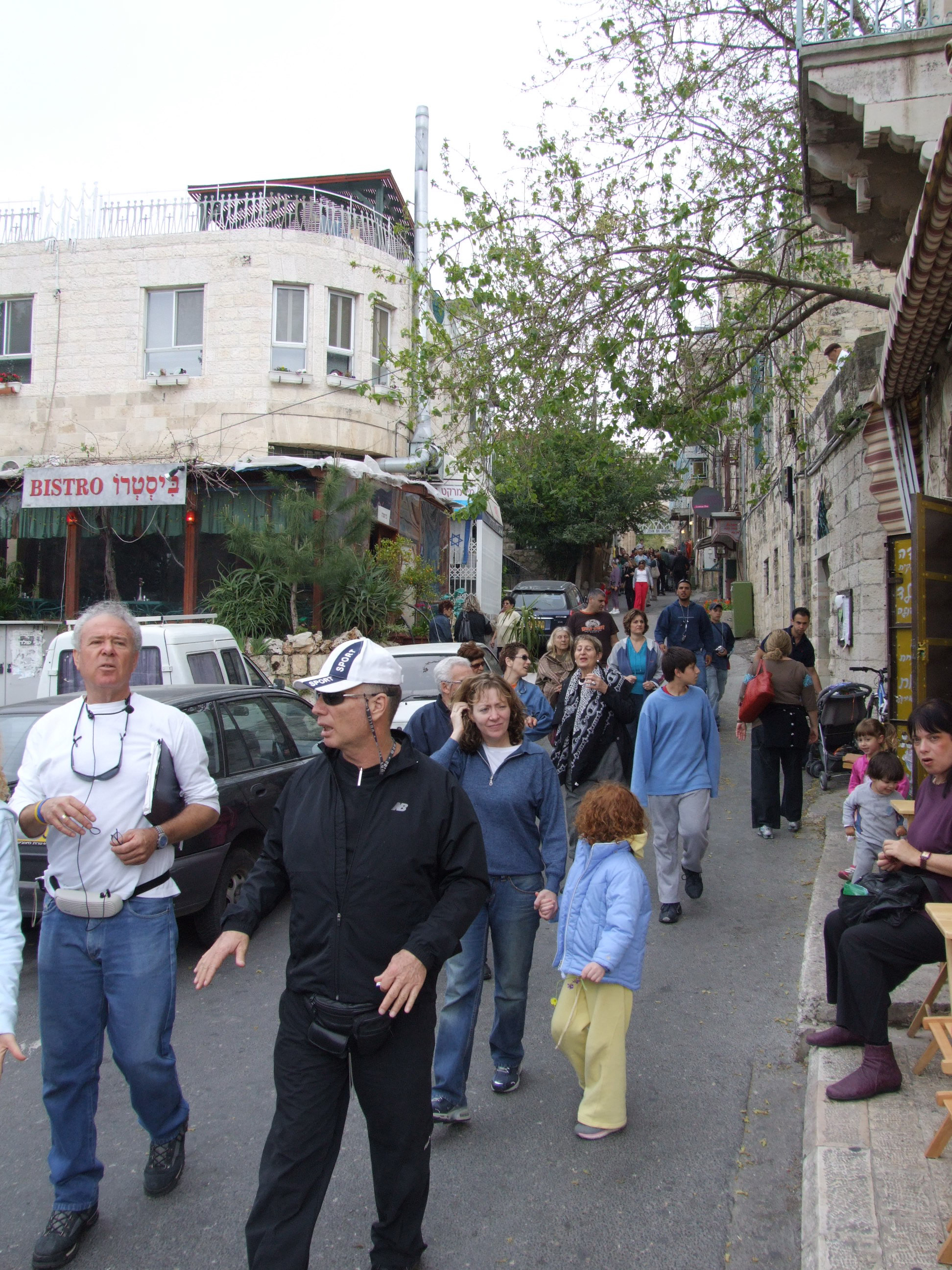 Ein Kerem, Jerusalem, Israel, tourists in Mevo Ha-Sha'ar, the alleyway leading to Saint John Church.